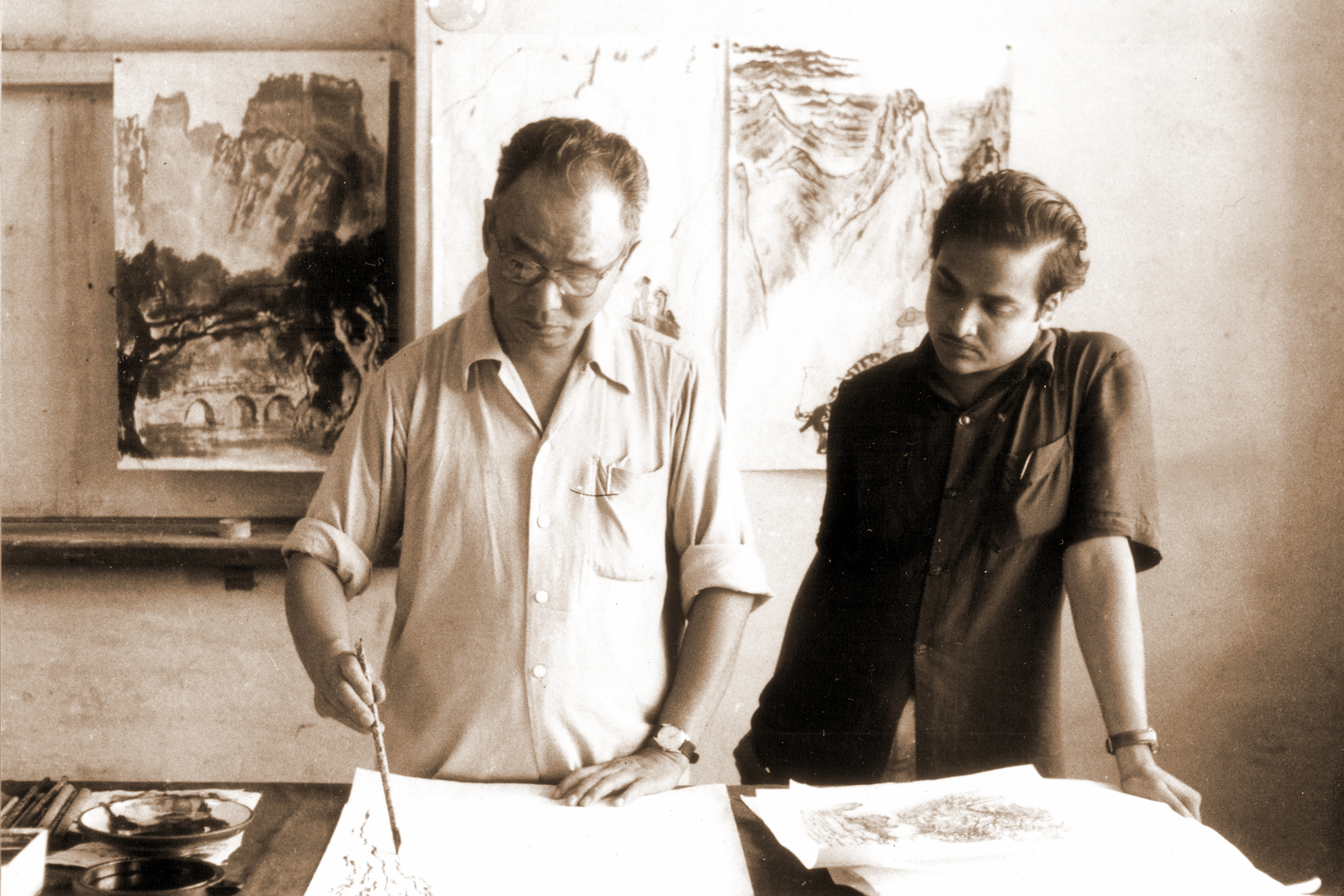 Chinese art maestro Li Keran visiting the studio of Beohar Rammanohar Sinha in Peking in c. 1957. The two artists executed numerous artworks together that include the famous painting ‘‘Meishan Bridge’’ seen hanging in the background. Internationally-acclaimed contemporary artist from Shantiniketan, renowned for his unique Sino-Indian style of painting in mixed-media and watercolour. Rammanohar was mentored by the revivalist modernist Indian maestro Nandalal Bose and also worked with Chinese maestros Qi Baishi, Chen Banding and others. He decorated the original calligraphic manuscript of Constitution of India, played an important role in India’s cultural diplomacy with the Far East, painted a multitude of murals in Fresco-secco and exhibited his paintings worldwide. His art is a part of numerous prestigious public and private collections in European, North American and Asian countries.